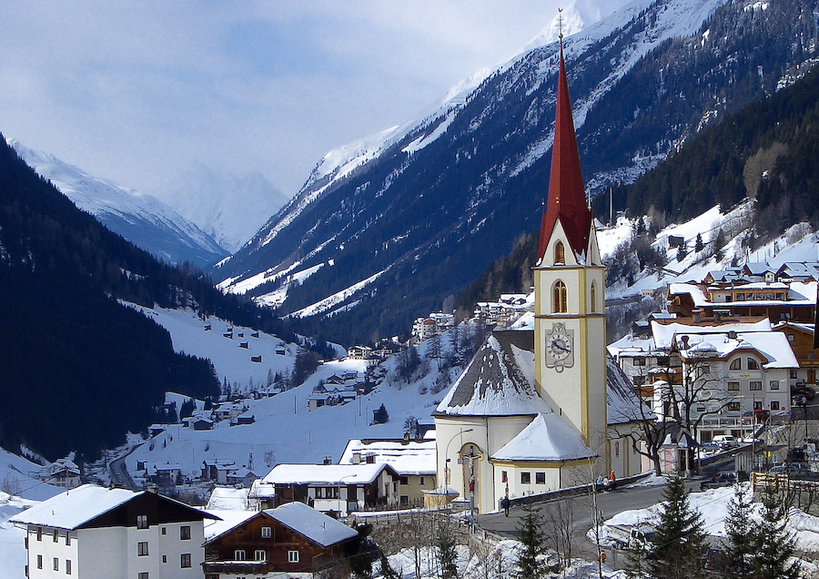 Church in Kappl, Tyrol, Austria